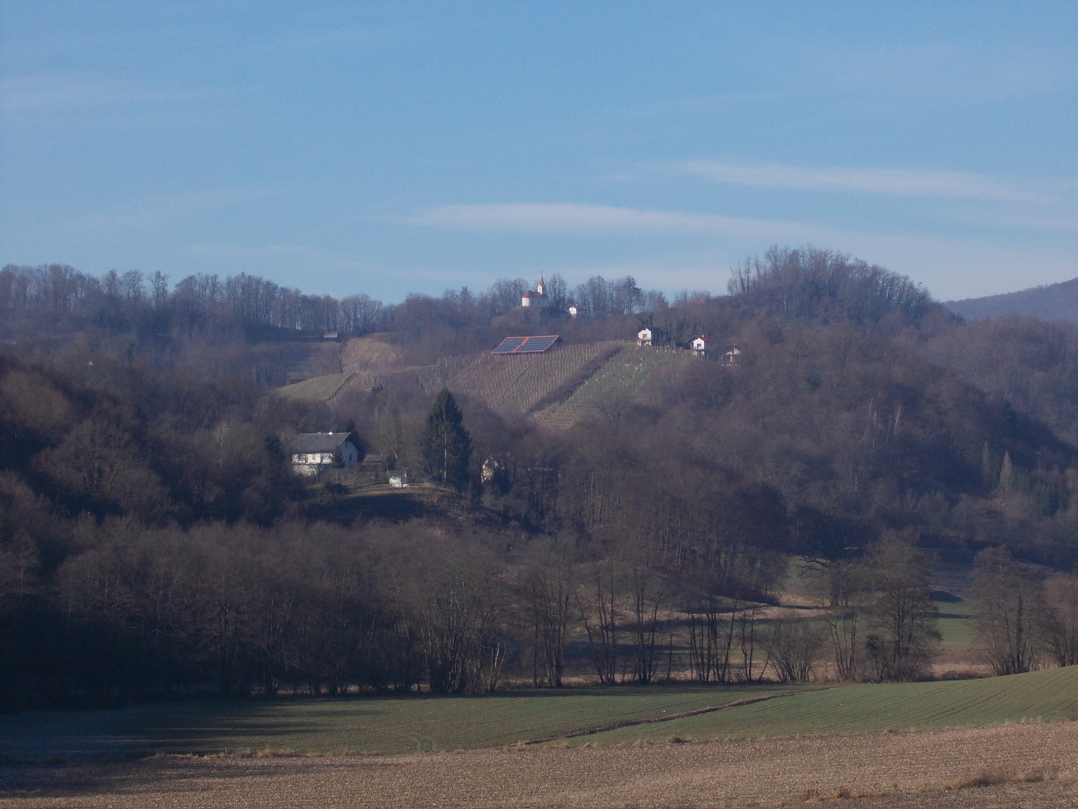 St. Ulrich's Church (Brezje pri Bojsnem)